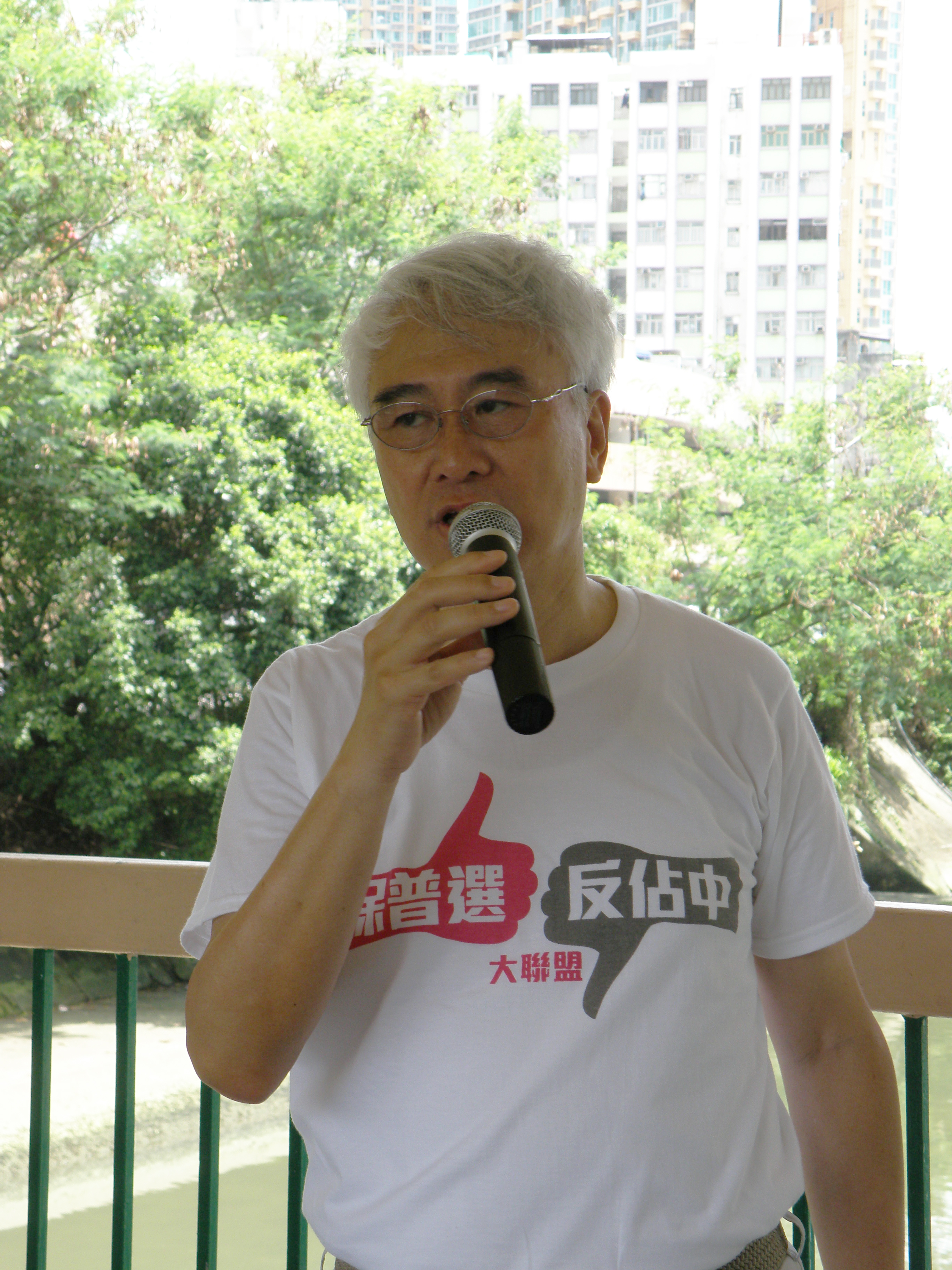 Robert Chow, convener of "Slient Majority", Hong Kong.